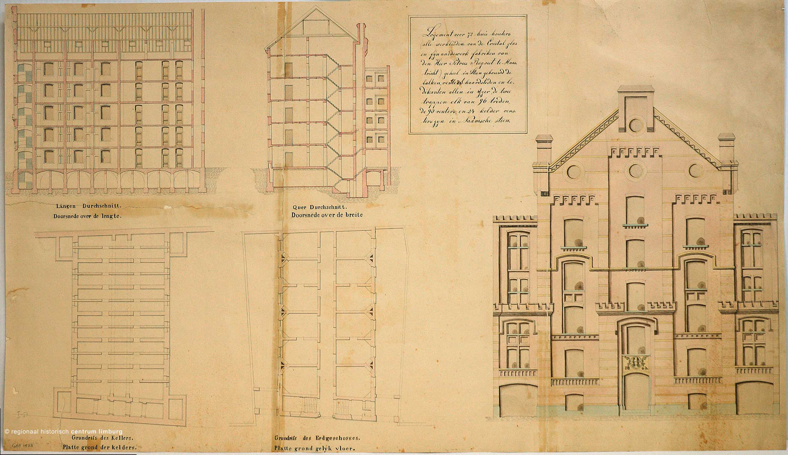 Architectural drawing of the Cité ouvrière, designed by Wilhelm Wickop(?) in 1863/64 in Maastricht, Netherlands. The building was owned by the entrepreneur Petrus Regout and was meant to house 70 families of workers of his glass and earthenware factories in one-room apartments. Collection: RHCL, Maastricht, ref. nr. GAM 1522.